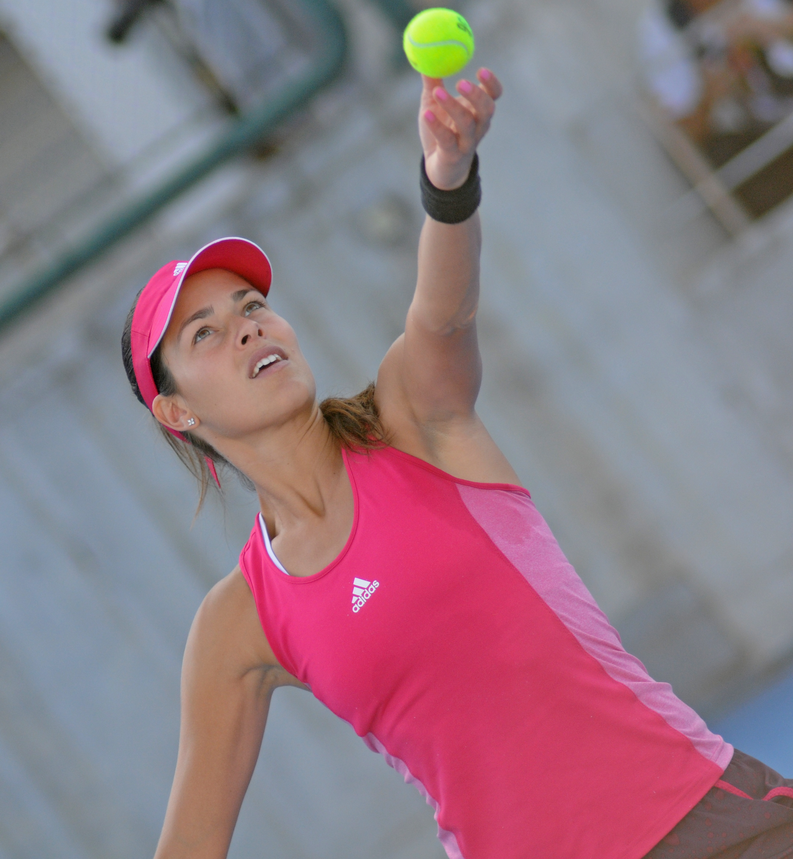 Ana Ivanović at the 2014 China Open